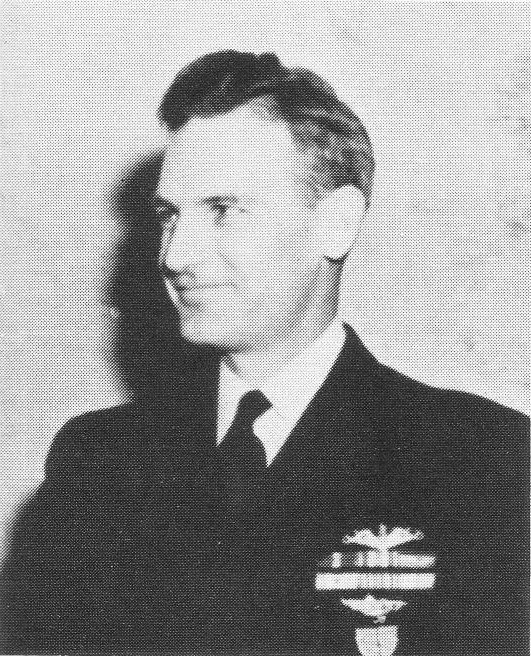 Rear Admiral Charles Elliott Loughlin